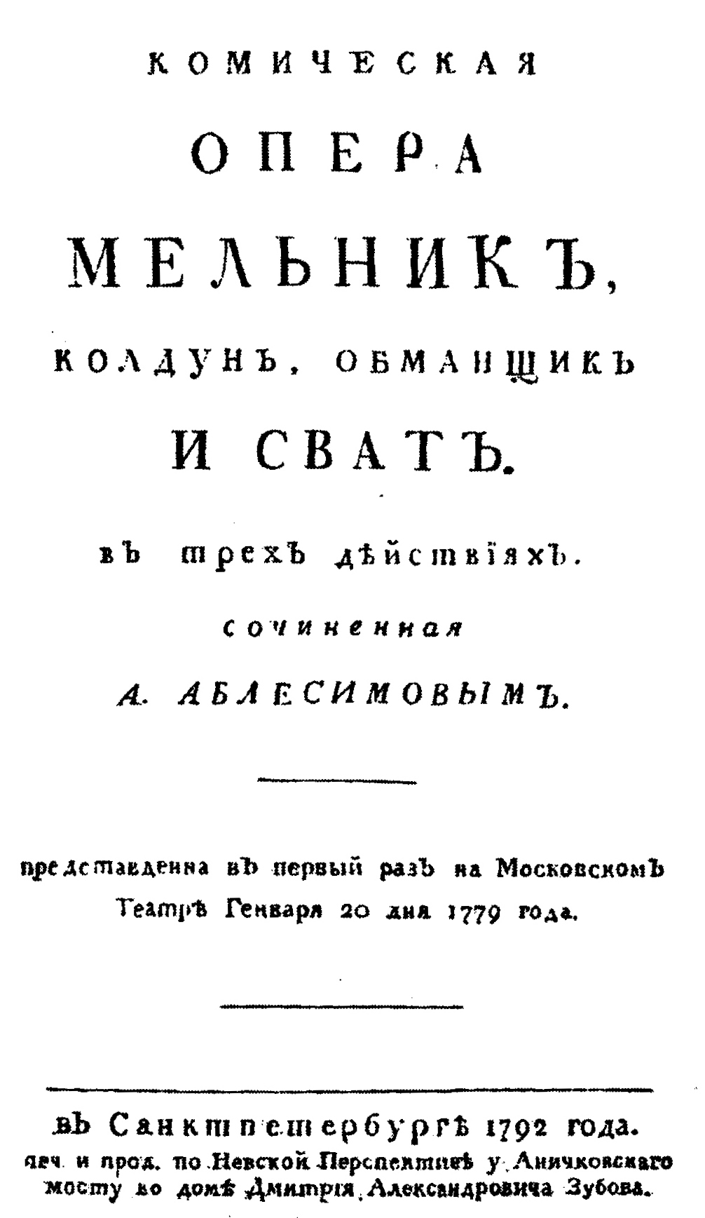 Title page of the libretto by Alexander Ablesimov to the 1779 opera The Miller Who Was a Wizard, a Cheat And a Matchmaker (Мельник - колдун, обманщик и сват [Melnik - koldun, obmanshchik i svat]), published Saint Petersburg, 1792